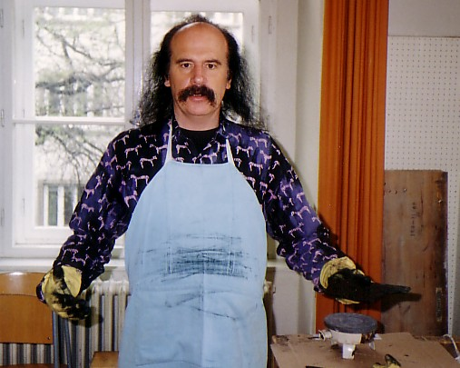 Austrian rock musician Stefan Weber, head of the rock/pre-punk-band Drahdiwaberl, when jobbing as an art teacher on a Realschule in spring 1993.